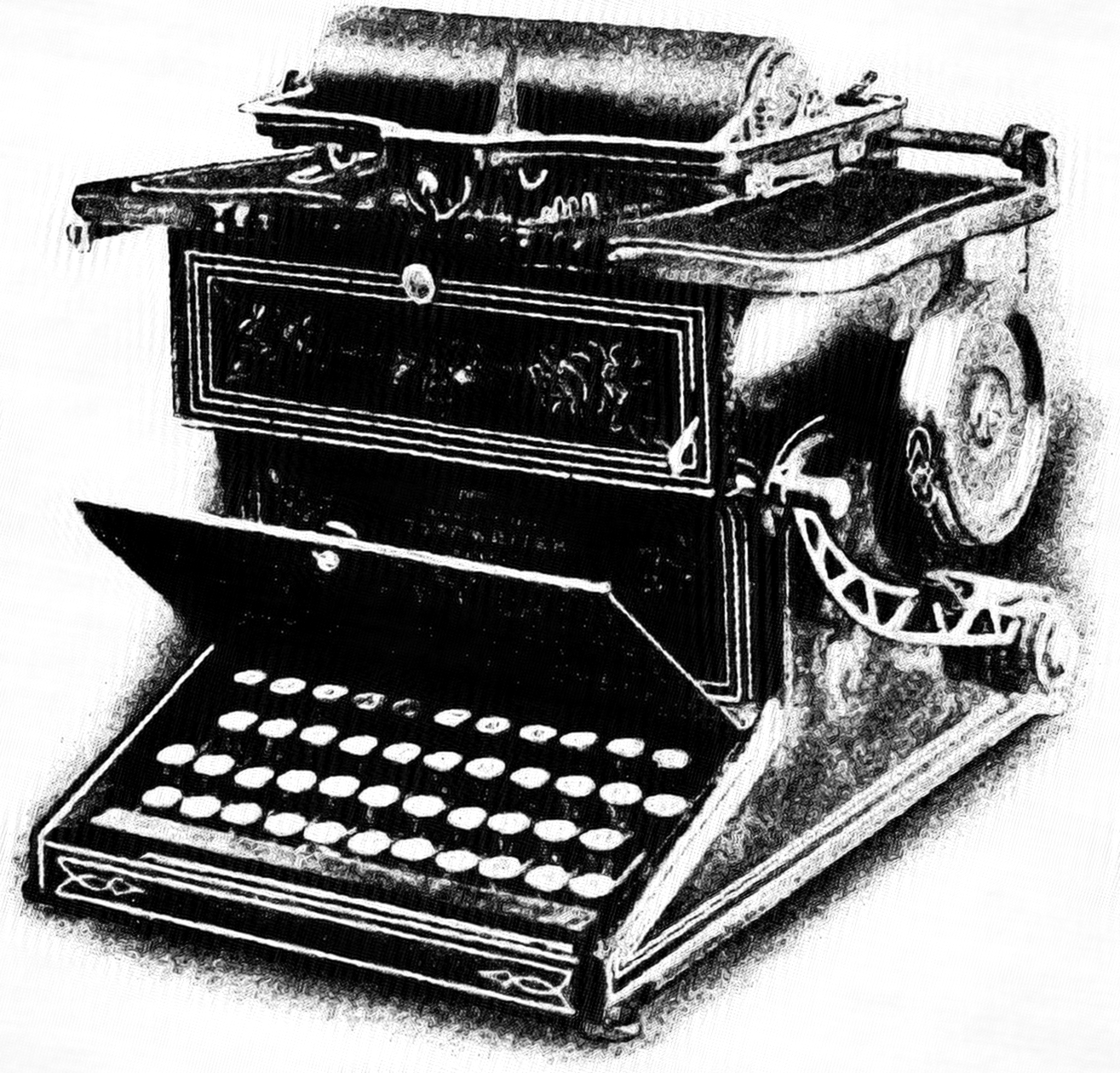 Sholes & Glidden Typewriter